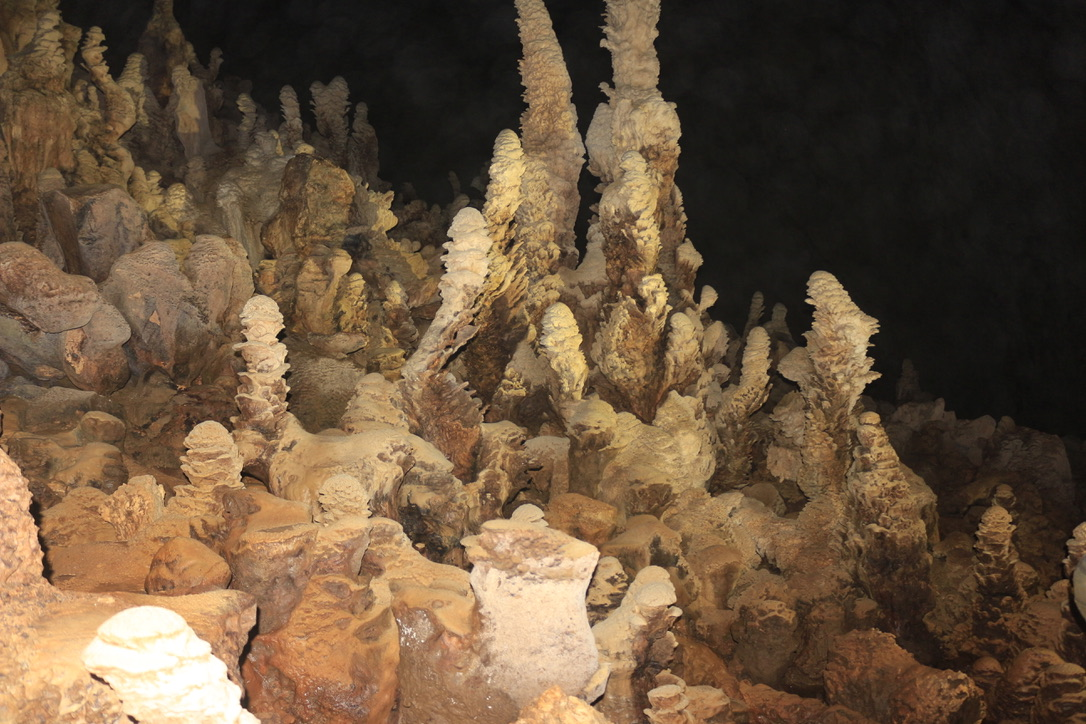 Inside the Langun-Gobingob Cave